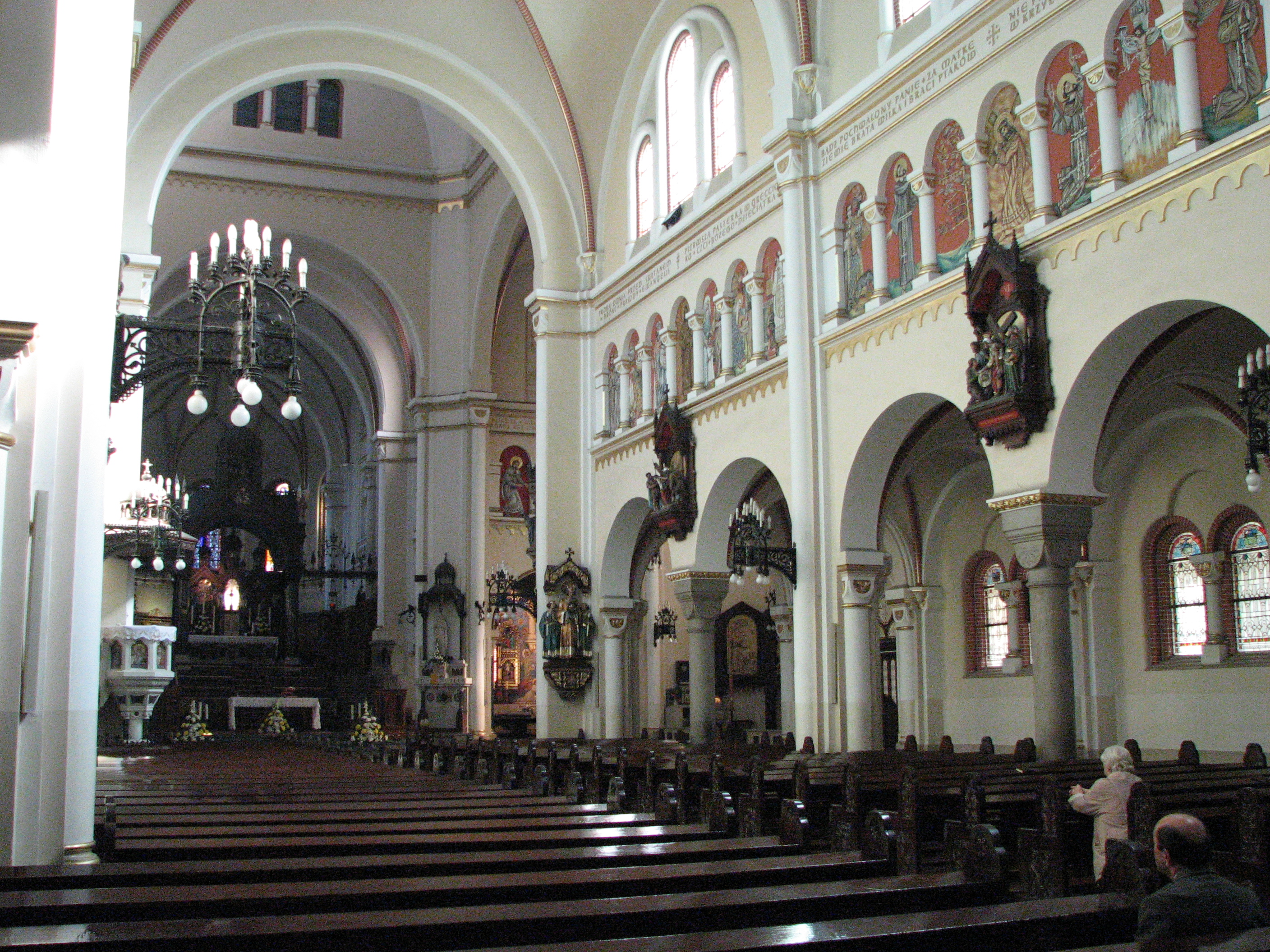 The interior of the Basilica in Katowice Panewniki, Poland.